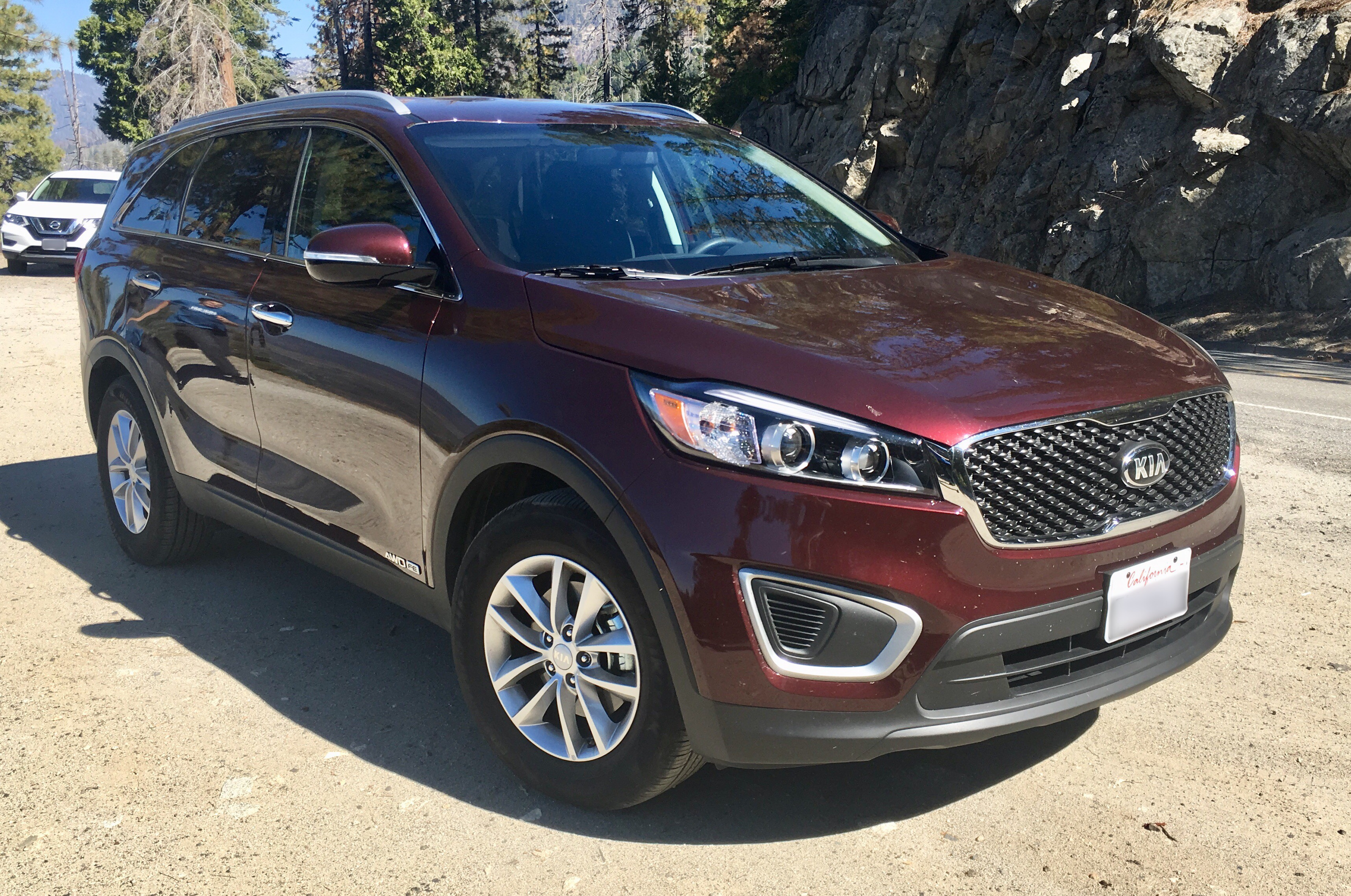 Kia Sorento (UM), front three-quarter view